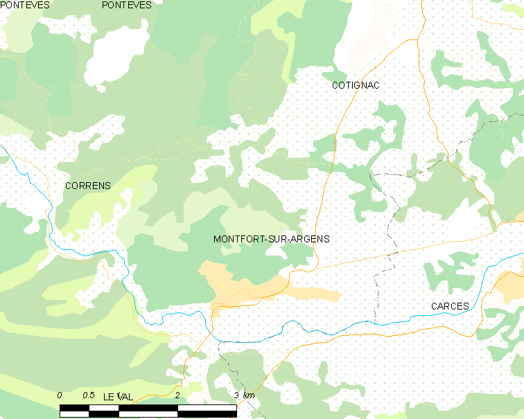 Map of French municipality Montfort-sur-Argens